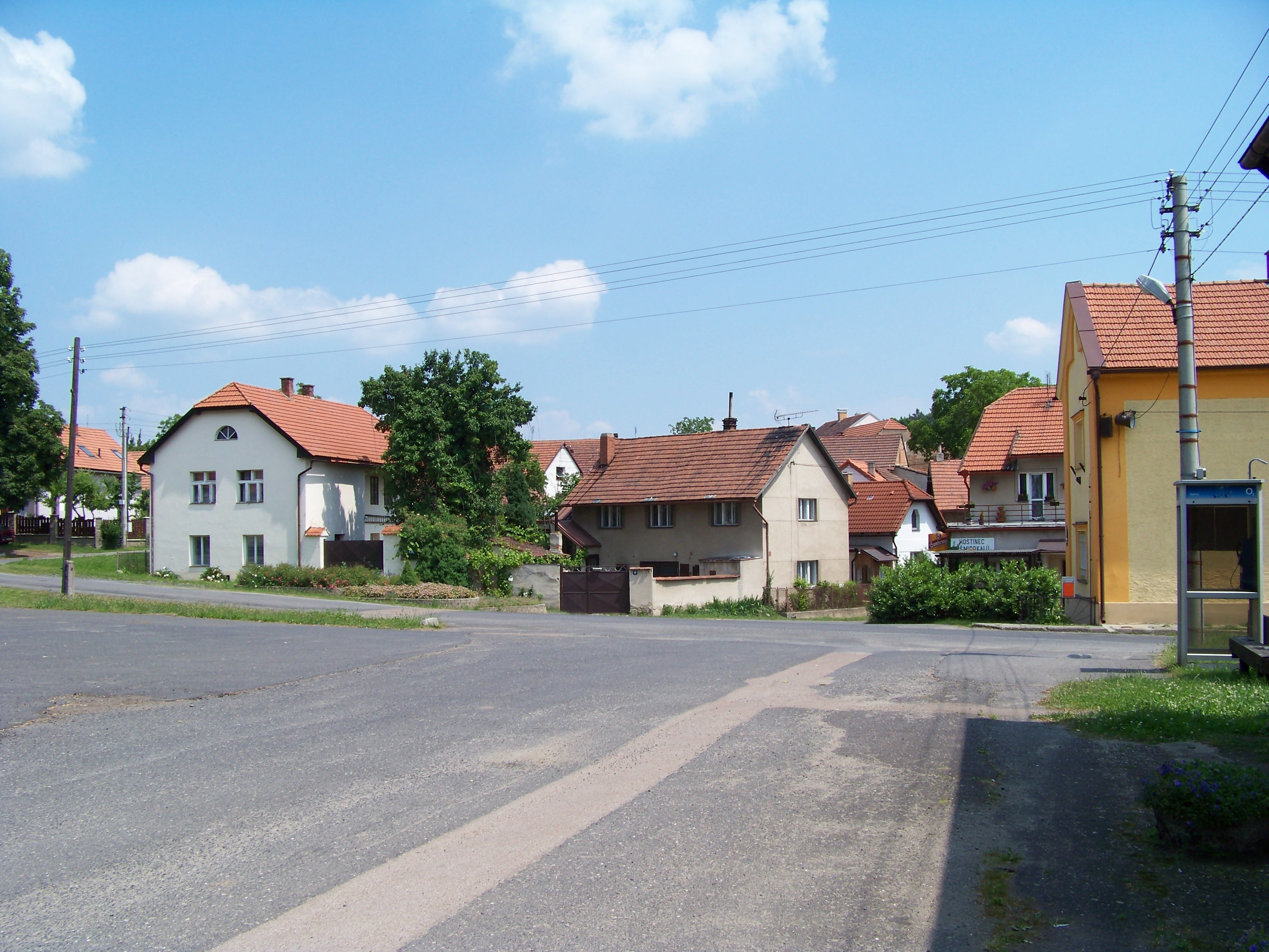 Jeviněves, Mělník District,Central Bohemian Region, the Czech Republic. - Google Maps - Google Earth